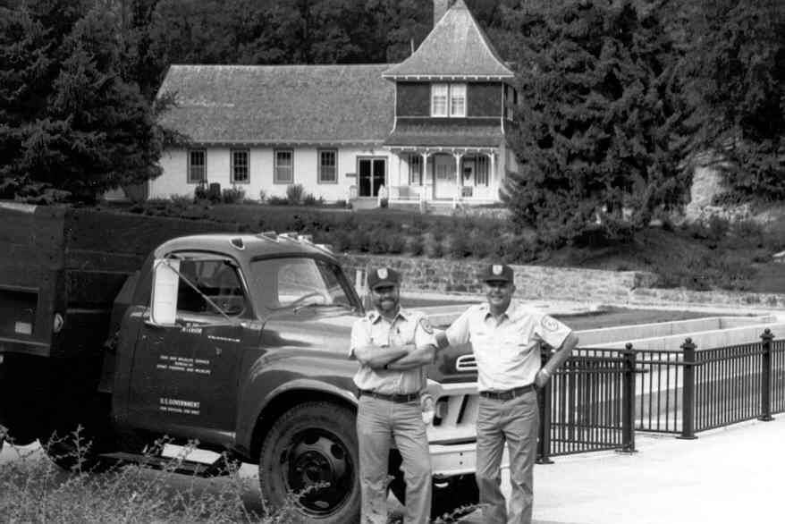 The Von Bayer Museum at the D.C. Booth Historic National Fish Hatchery in Spearfish, South Dakota. Two fishery employees are standing in front of a fishery truck in the foreground. Taken in the 20th century, date unknown.